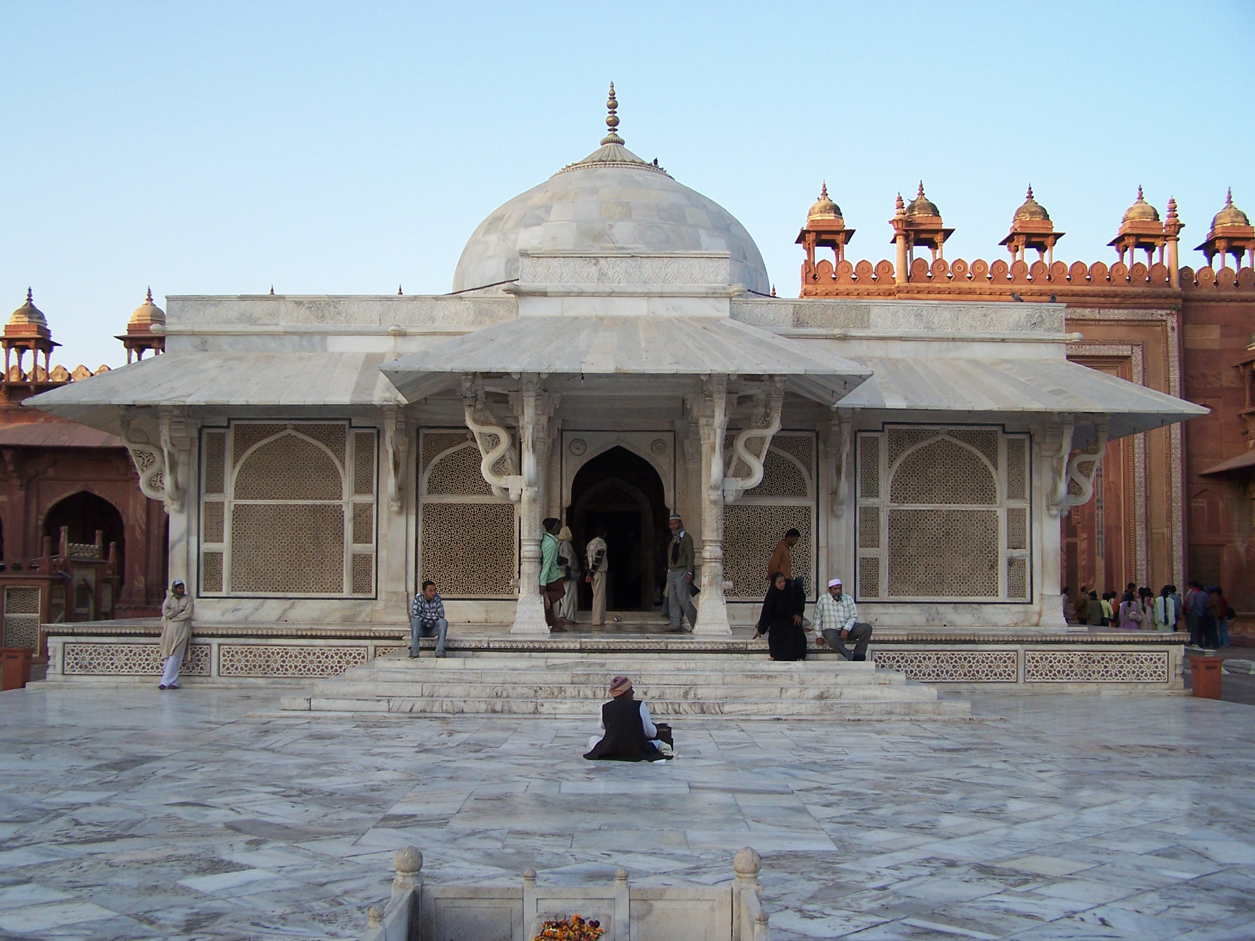 Salim Chishti's Tomb at Fathepur Sikri, near Agra, India on march 18th 2007